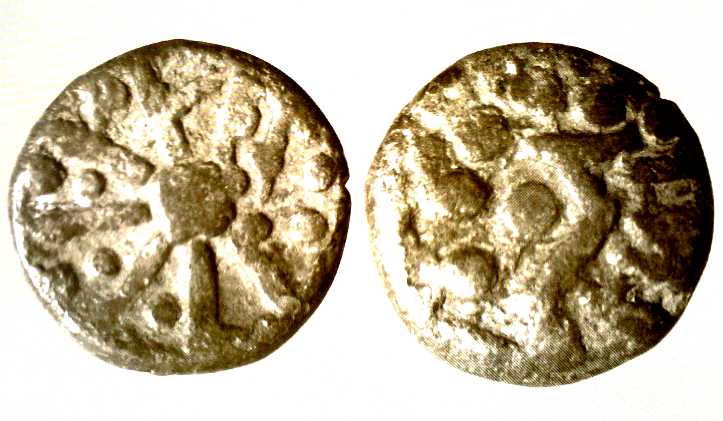 Celto-Dacian Púchov culture coins found on the Považský hrad castle cliff, dated to the 1st century BC.